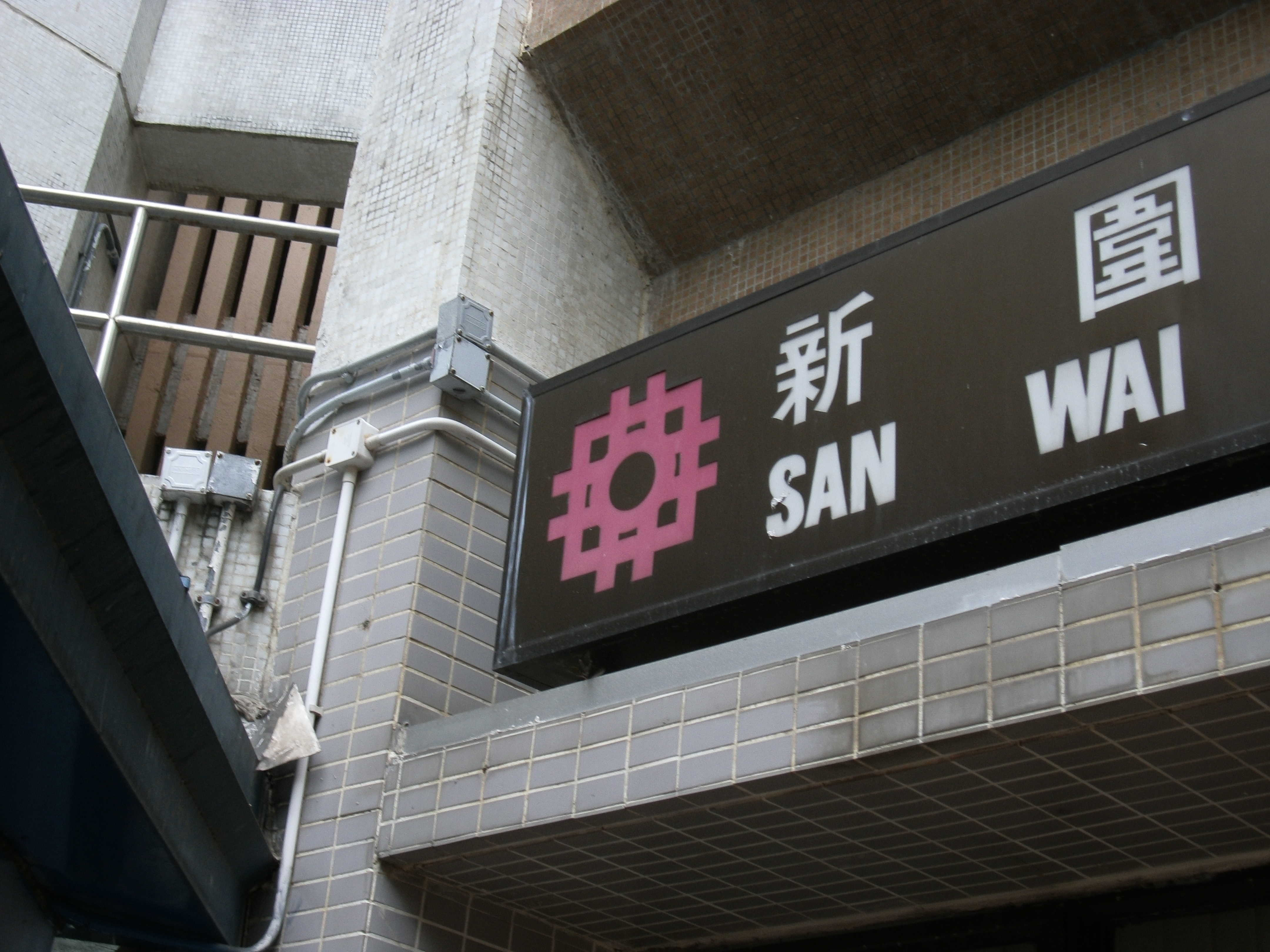 Hos logo pic